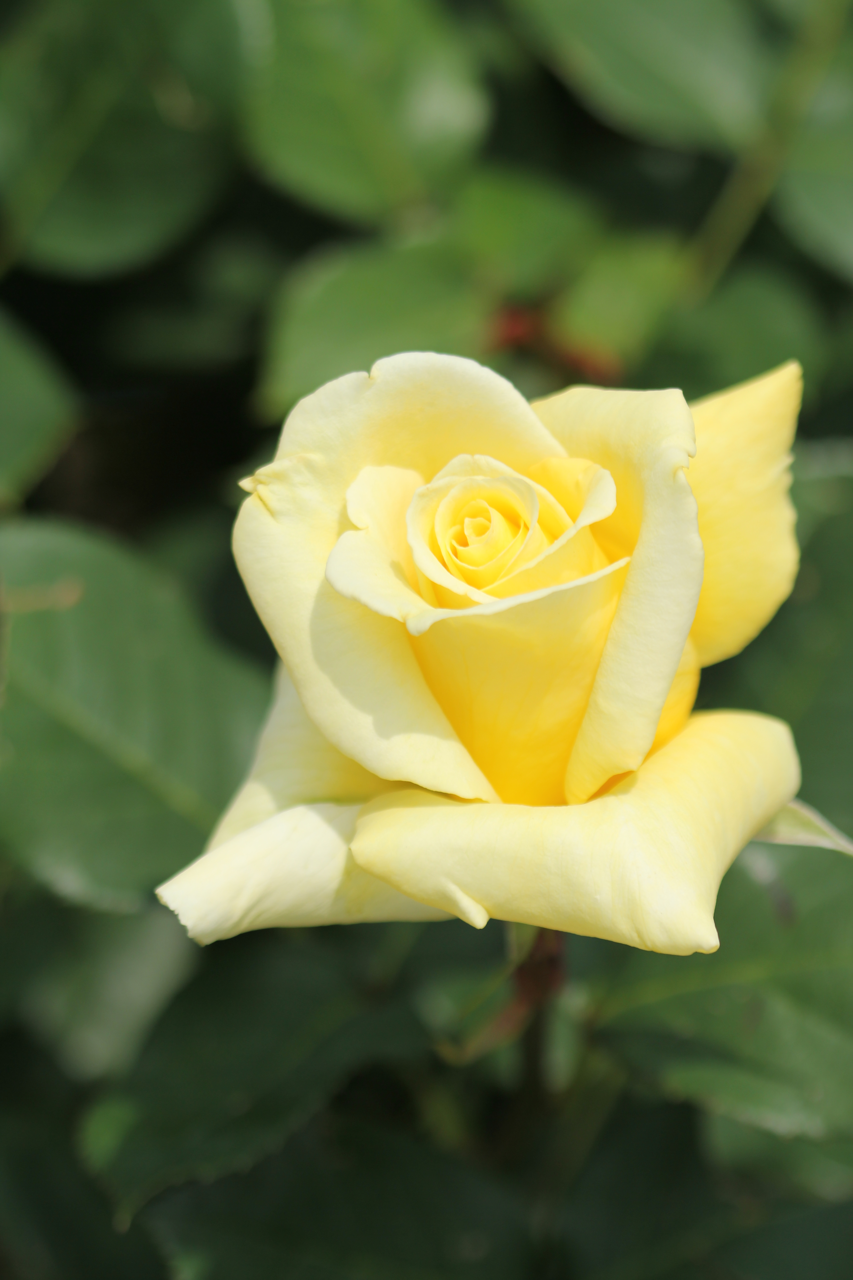 Helmut Schmidt, Rose